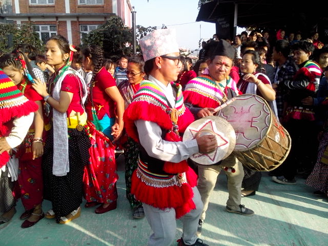 sunuwar udhauli